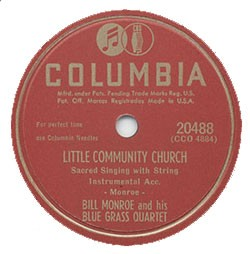 Little Community Church by Bill Monroe & his Bluegrass Boys, Columbia Records 194?